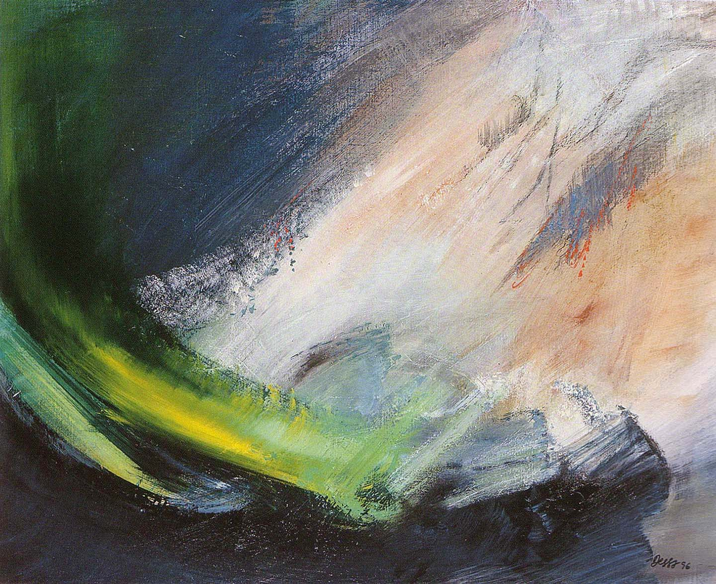 from the series Viktor Ullmann: A Legacy from Theresienstadt